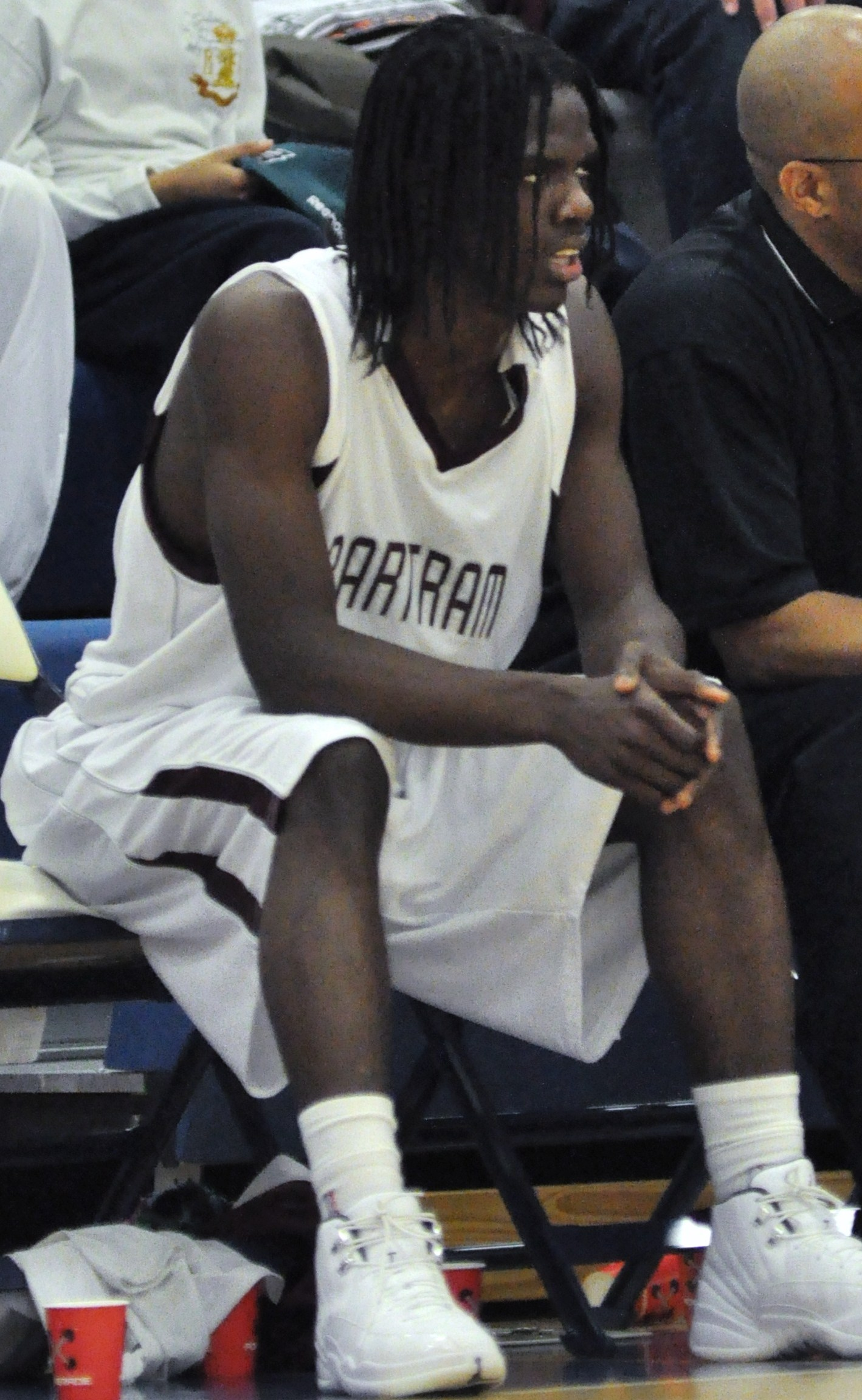 Tyrone Garland - Bartram